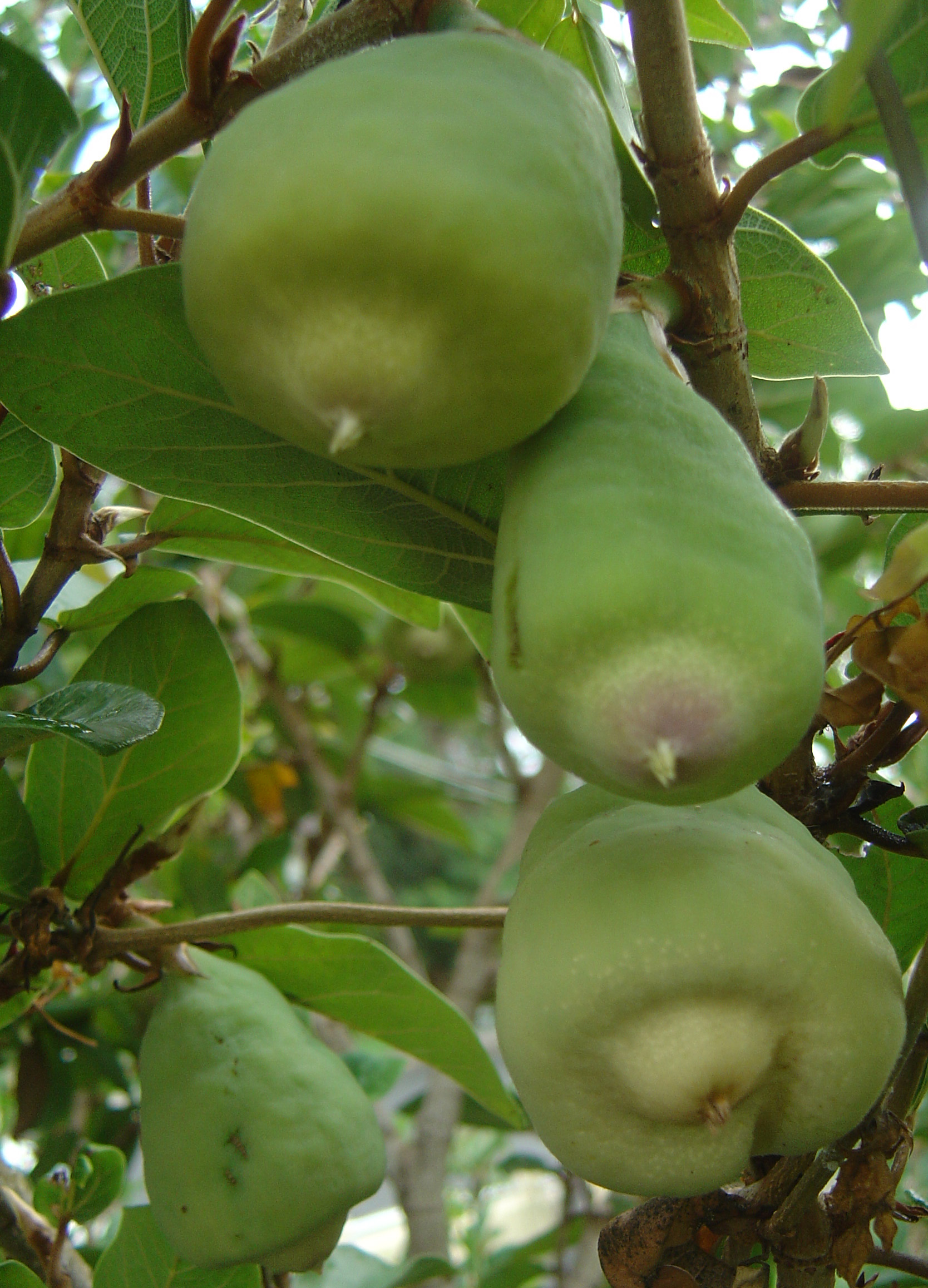 Figs growing on the fence along the driveway Ficus pumila